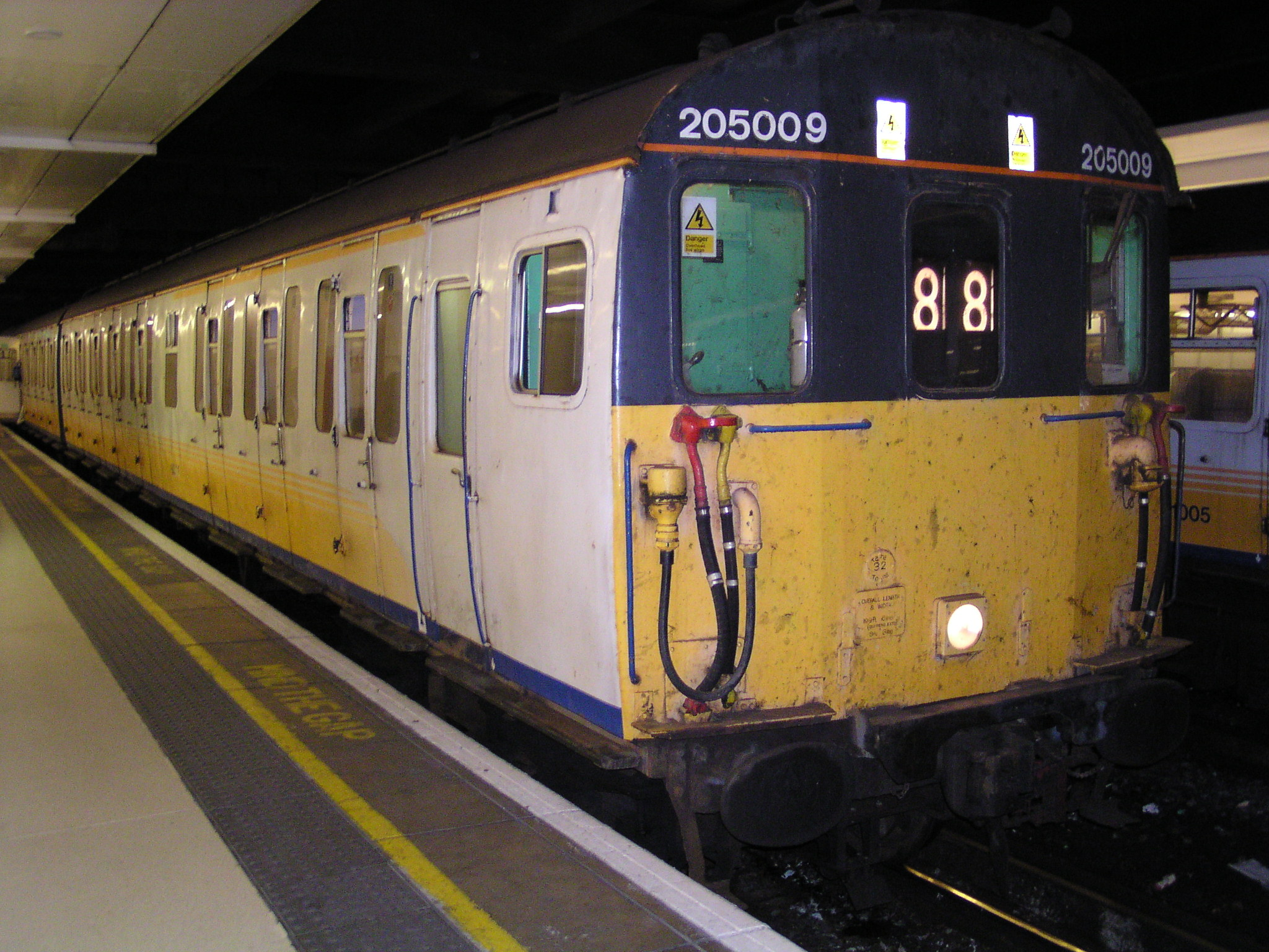 BR Class 205, no. 205009 at London Victoria on 15th August 2003, with a service to Uckfield. This service no longer runs, with all trains to Uckfield now diverted to London Bridge. 2004 was the final year of service of these elderly units. This unit is now in service on the Eden Valley Railway, Warcop, Cumbria.